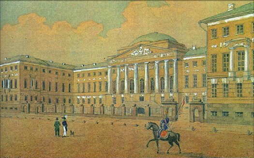 The old building of the Moscow University